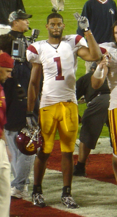 Patrick Turner, wide receiver for the University of Southern California Trojans football team, celebrating on the field after a game. He is waving his arm in the traditional USC "V" for Victory sign.